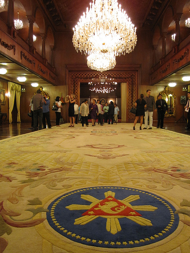 The Reception Hall of the Malacanang Palace where the paintings of past presidents are.